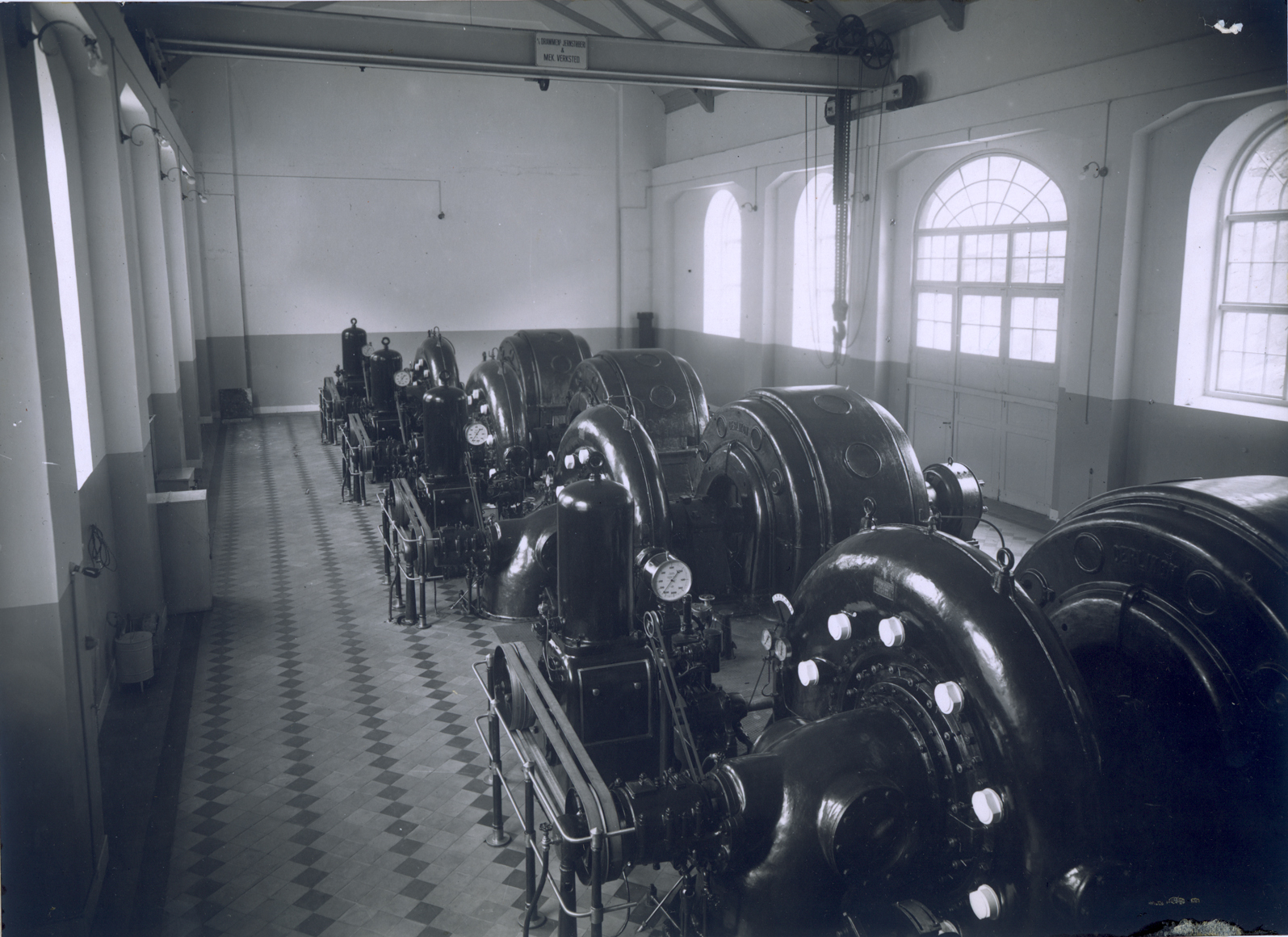 machine hall interior of the Herlandsfoss power station